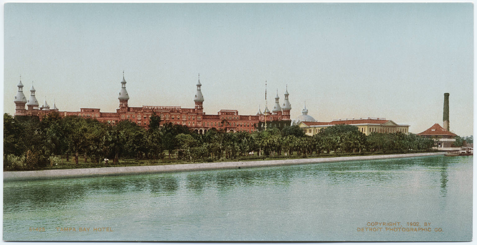 A photochrom postcard published by the Detroit Photographic Company.